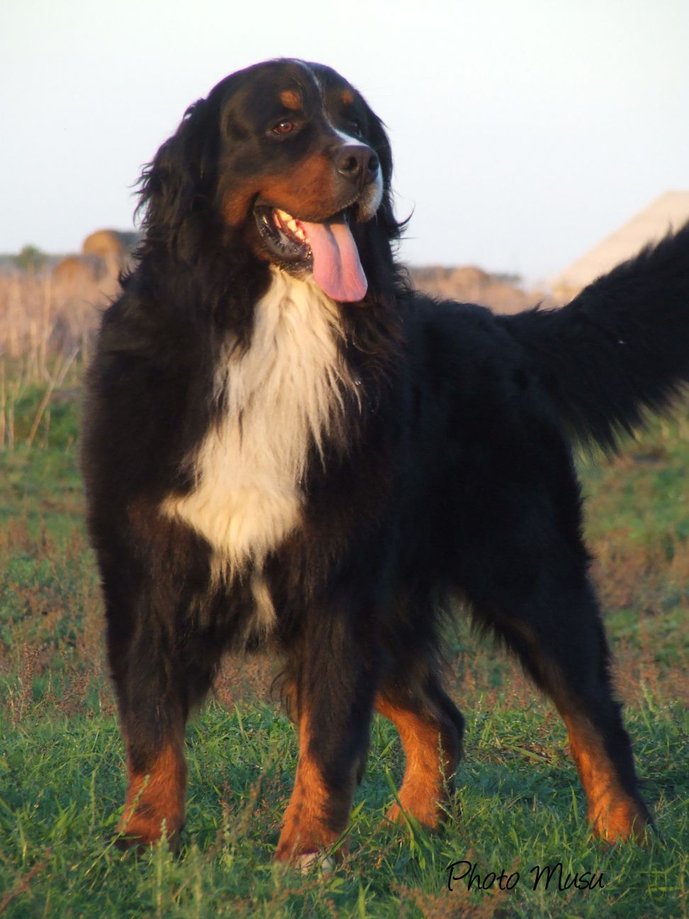 Bernese Mountain Dog